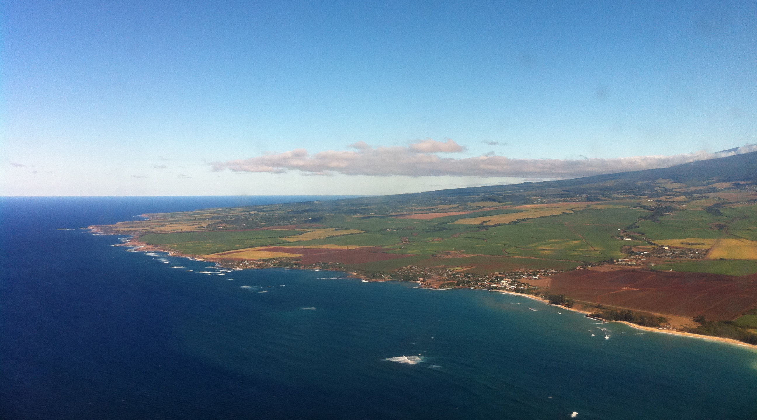 Aerial view of a portion of the North side of Maui, Hawaii